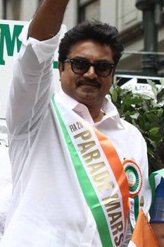 Journalist Swamy with $25,000 missing in his Charitable Foundation being paraded with Sarath Kumar & Radhika Sarath Kumar